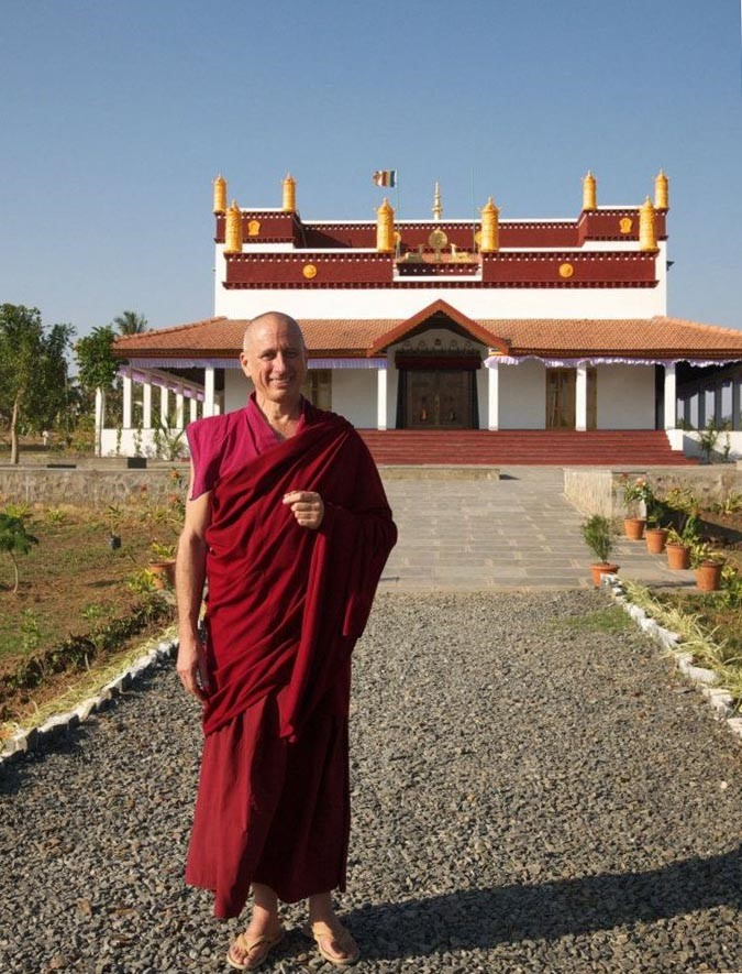 The abbot of Rato Dratsang, the Tibetan Buddhist monastery, Venerable Khen Rinpoche (Nicholas Vreeland) in front of the newly inaugurated Rato Temple, Mundgod, Karnataka, India, in January 2015